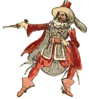 Guy Fawkes. "Guy Fawkes - The Fifth of November a Prelude in One Act" during performed during 1793 at the Theater Royal, Haymarket.